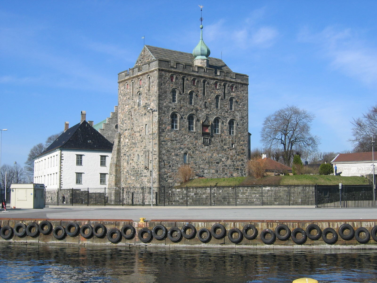 View of the Rosenkrantz Tower at Bergenhus Fortress in Bergen, Norway